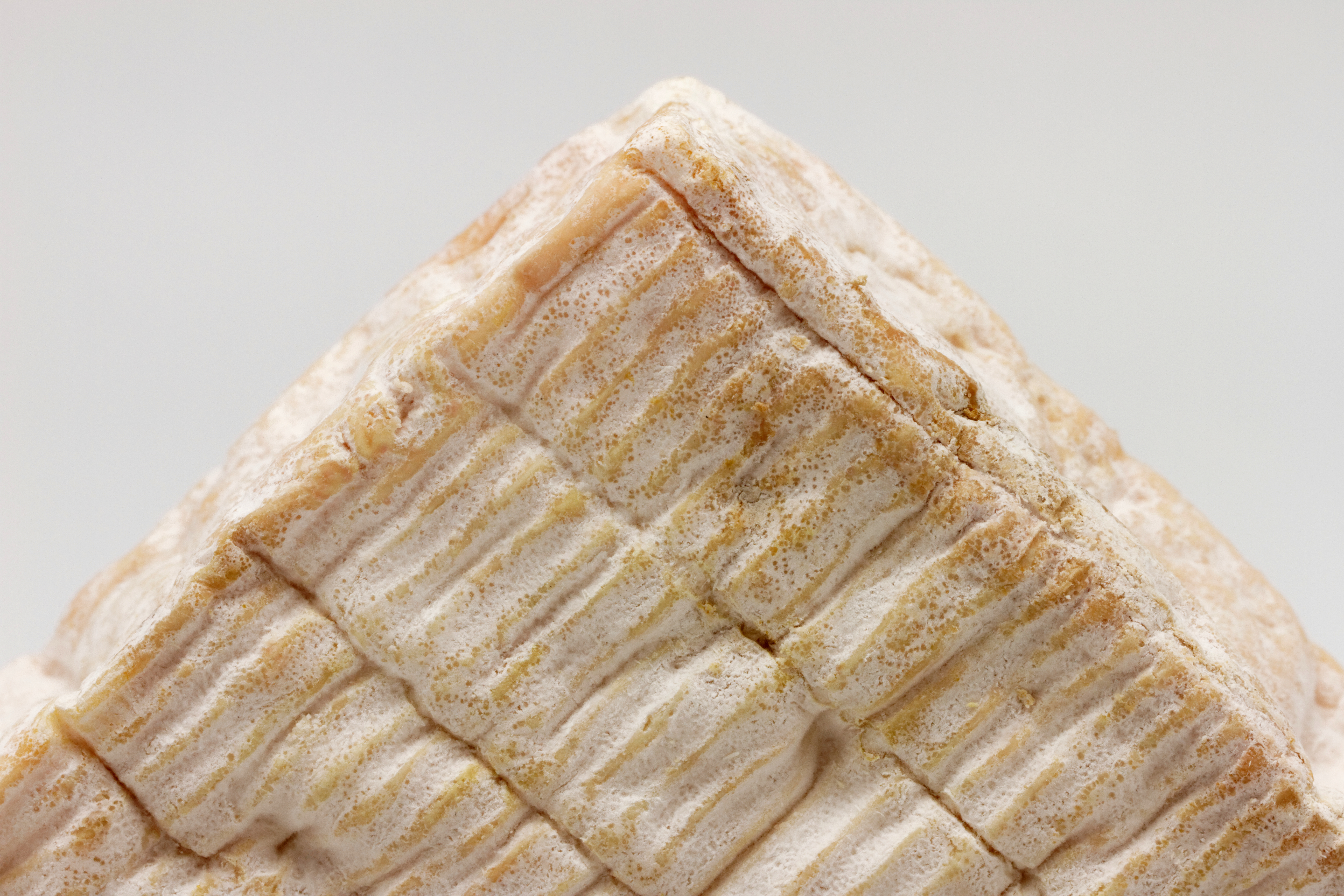 Pont-l'Évêque (cow's milk cheese)